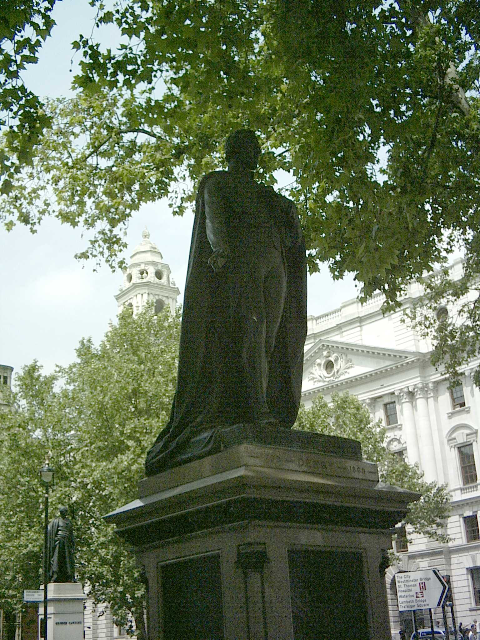 Statue of Edward Smith-Stanley, 14th Earl of Derby in Parliament Square, London.